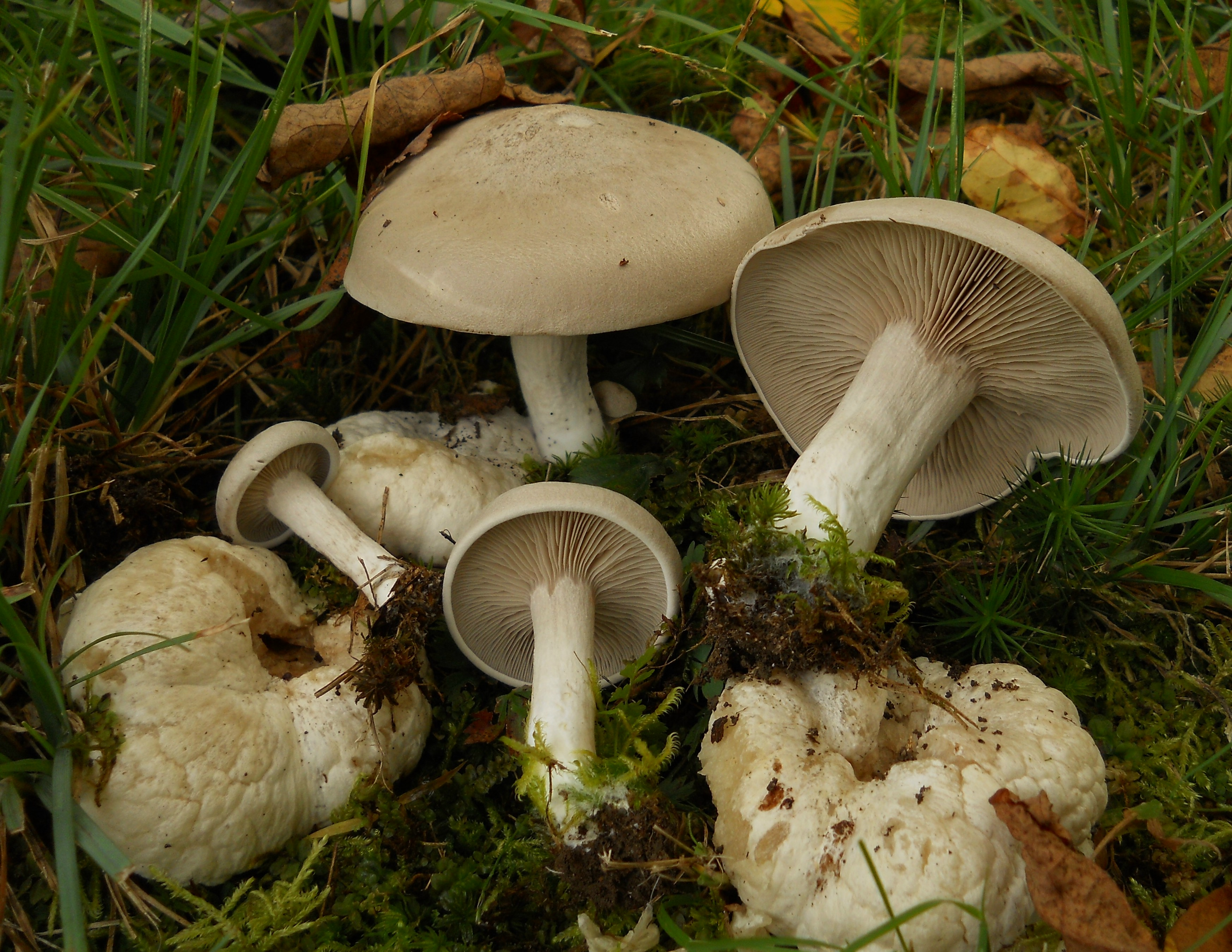 Entoloma abortivum (Berk. and M.A. Curtis) Donk Image location: Westmoreland Co., Pennsylvania, USA Recognized by sight For more information about this, see the observation page at Mushroom Observer.